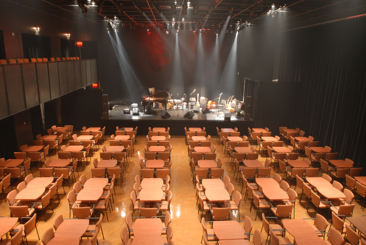 Espace RONA Hall of the Centre des arts Juliette-Lassonde.